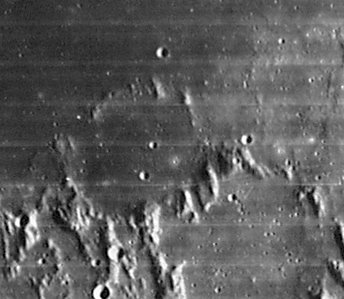 LOIV 101 H3 Oppolzer is the "ruined" enclosure to the left of center. To its southeast is the similar, but larger (52 km) Réaumur. The larger of the two craters on the floor of Oppolzer is 3-km Oppolzer K. Just to the north of Oppolzer, in Sinus Medii, is 3-km Oppolzer A, the named feature closest to the center of the lunar coordinate grid. A portion of Rima Oppolzer is also visible, cutting across the floor and north rim of Réaumur.